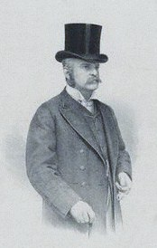 Half-length portrait of Hamar Alfred Bass; lithograph by Vincent Brooks (1815–1885) Alternative names Vincent Robert Alfred BrooksDescriptionBritish visual artist, printmaker, lithographer, publisher and stationerDate of birth/death 1815 29 September 1885 Location of birth/death London PutneyWork period1839 –1868 Work location London Authority control : Q18508706 VIAF: 51537881 ISNI: 0000 0001 1641 1996 ULAN: 500029991 LCCN: nr90006004 NLA: 35776863 WorldCat creator QS:P170,Q18508706 Courtesy of the National Portrait Gallery, London.